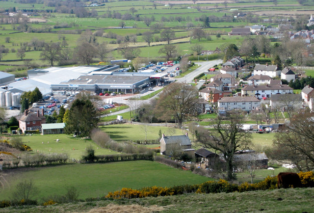 Church Stoke and Tuffin's supermarket